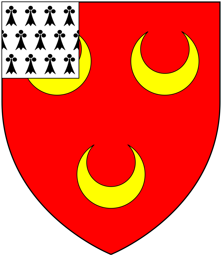 Arms of Dalison of Laughton, Lincolnshire: Gules, three crescents or a canton ermine (Encyclopaedia of Heraldry or general Armory of England, Scotland and Ireland ... By John Burke [1])